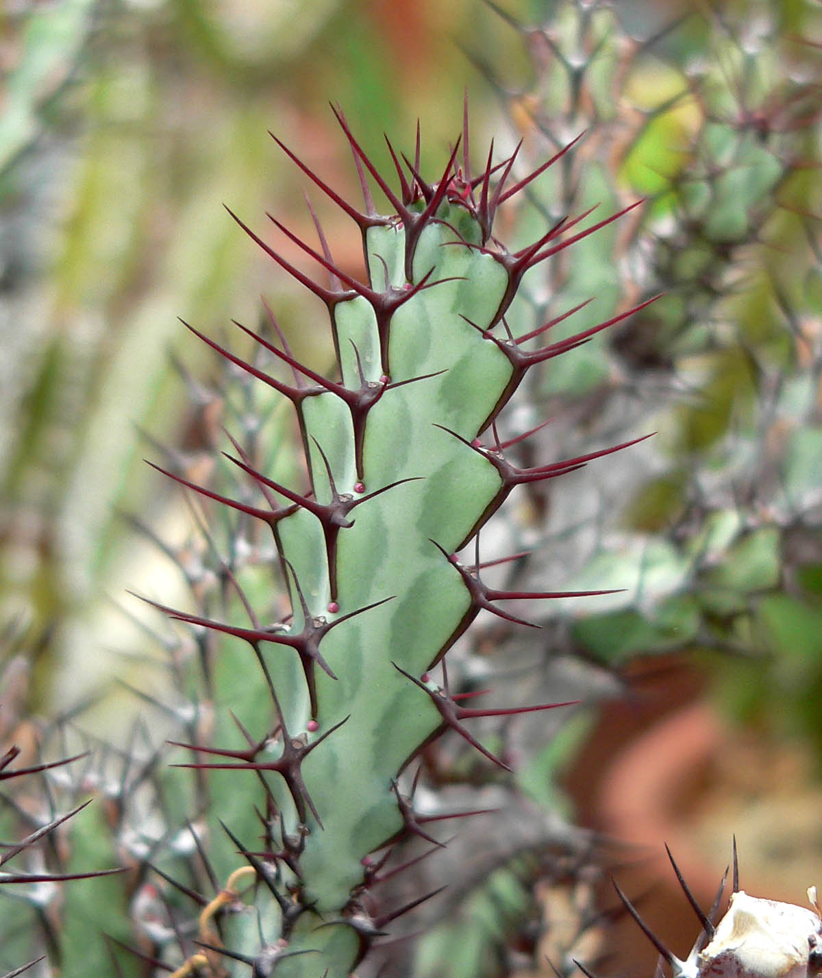 Photo of Euphorbia greenwayi at the University of California Botanical Garden